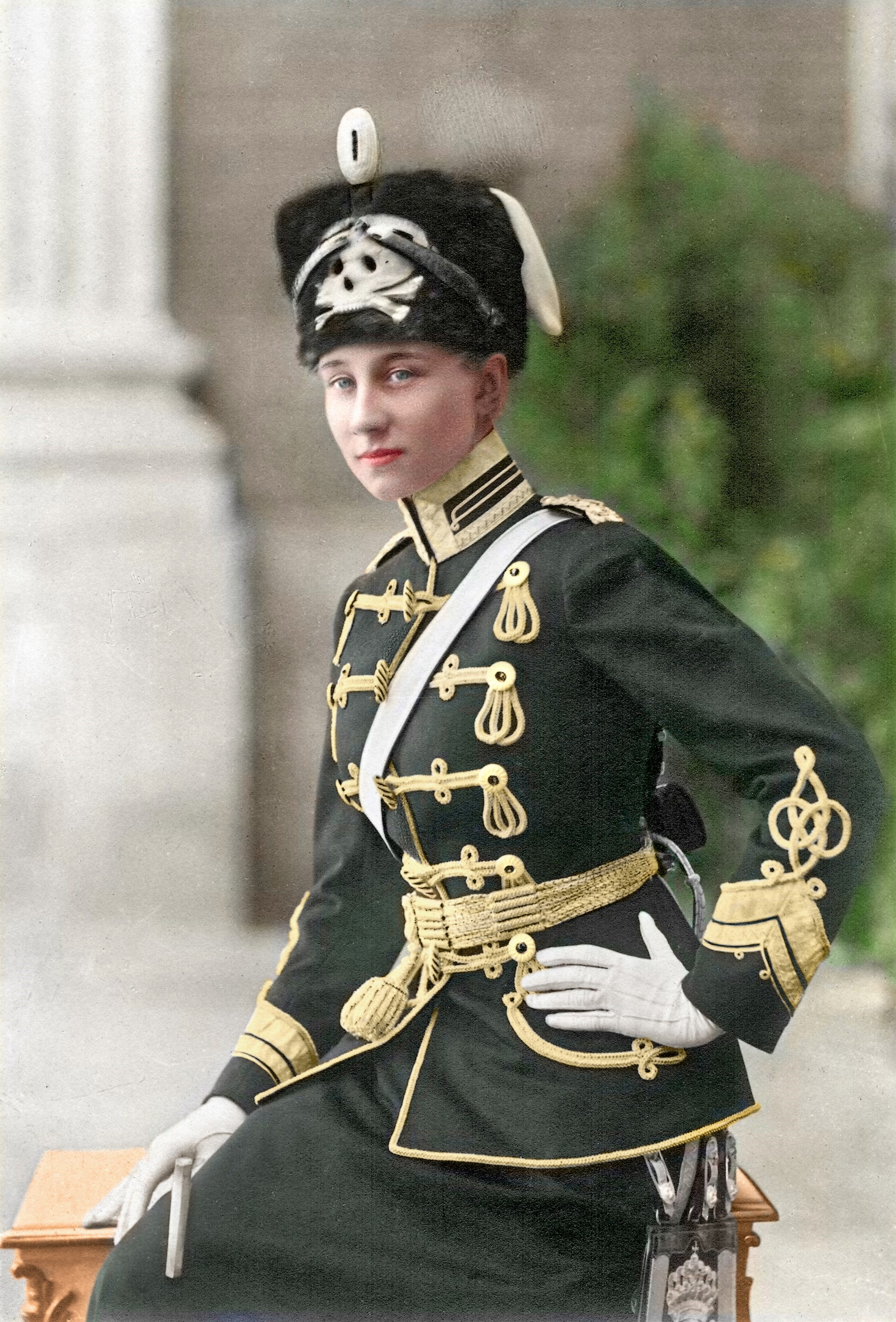 A postcard showing Princess Victoria Louise of Prussia in the uniform of the II Life Hussars regiment.